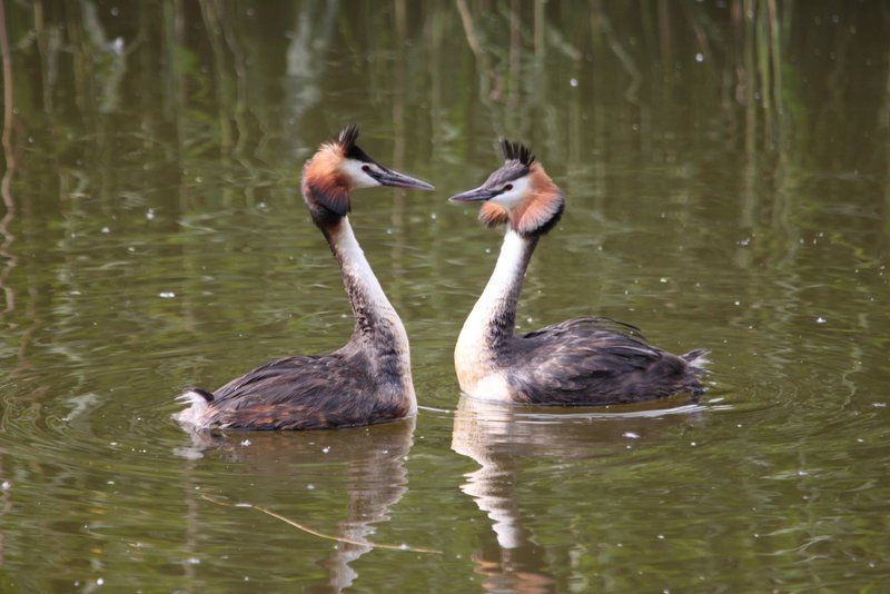 A couple grebes in love